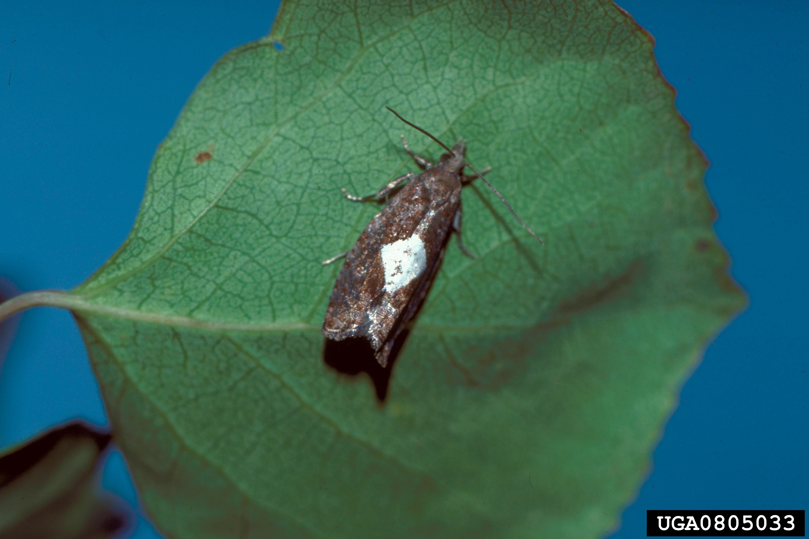 Adult of Epinotia solandriana